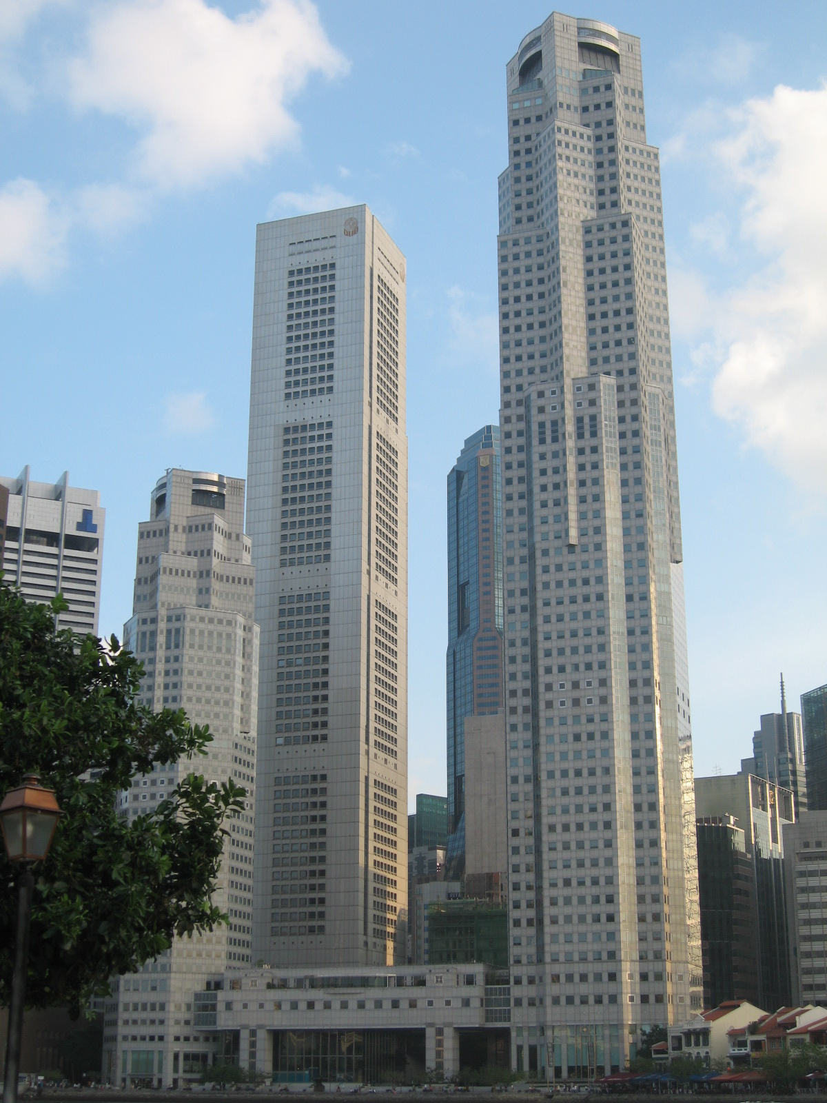 UOB Plaza and OUB Centre. Taken by Terence Ong (myself) in March 2006.